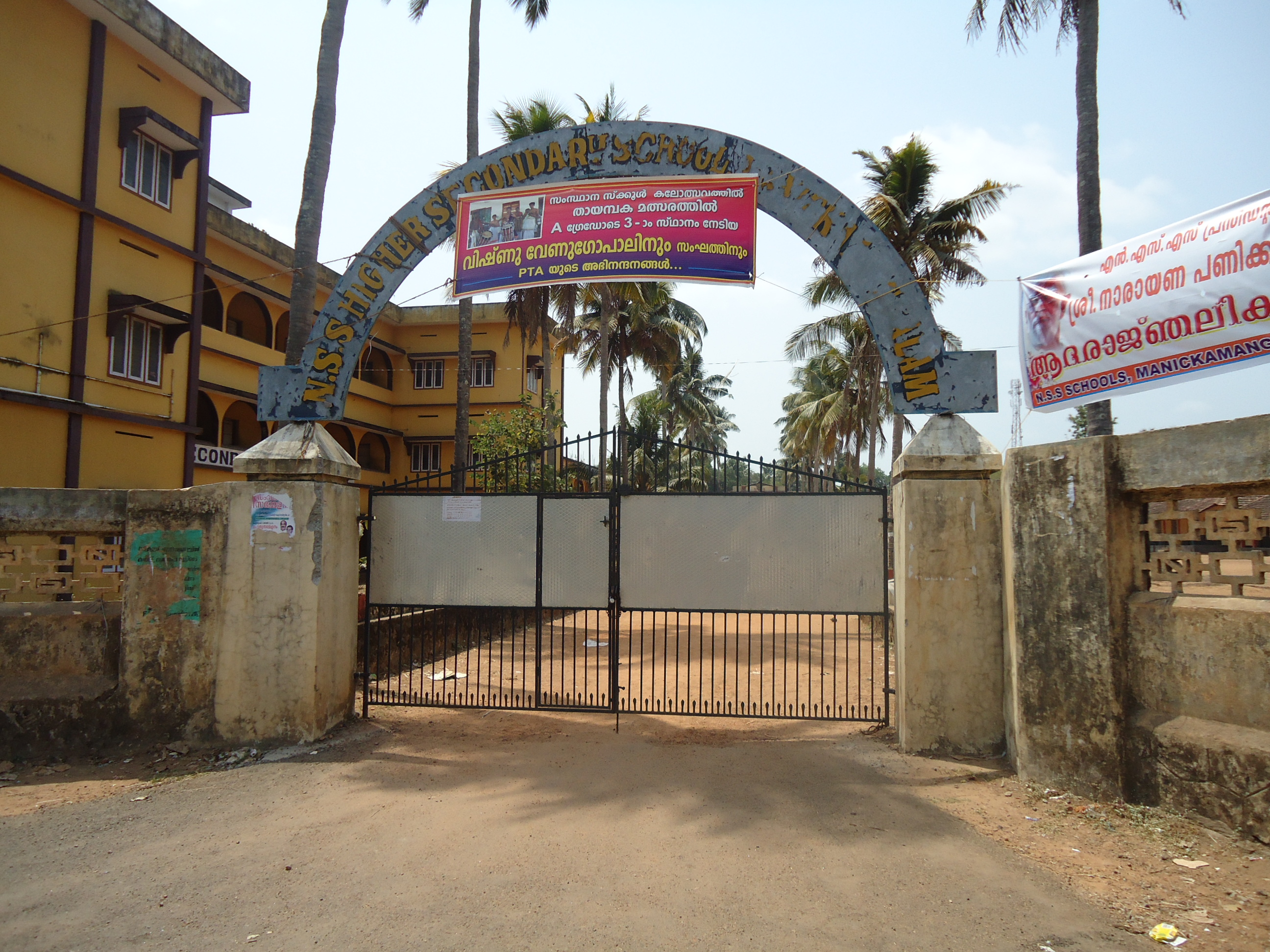 NSS Higher Secondary School Manickamangalam Board